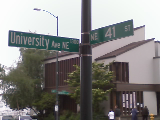 Street sign in the University District of Seattle